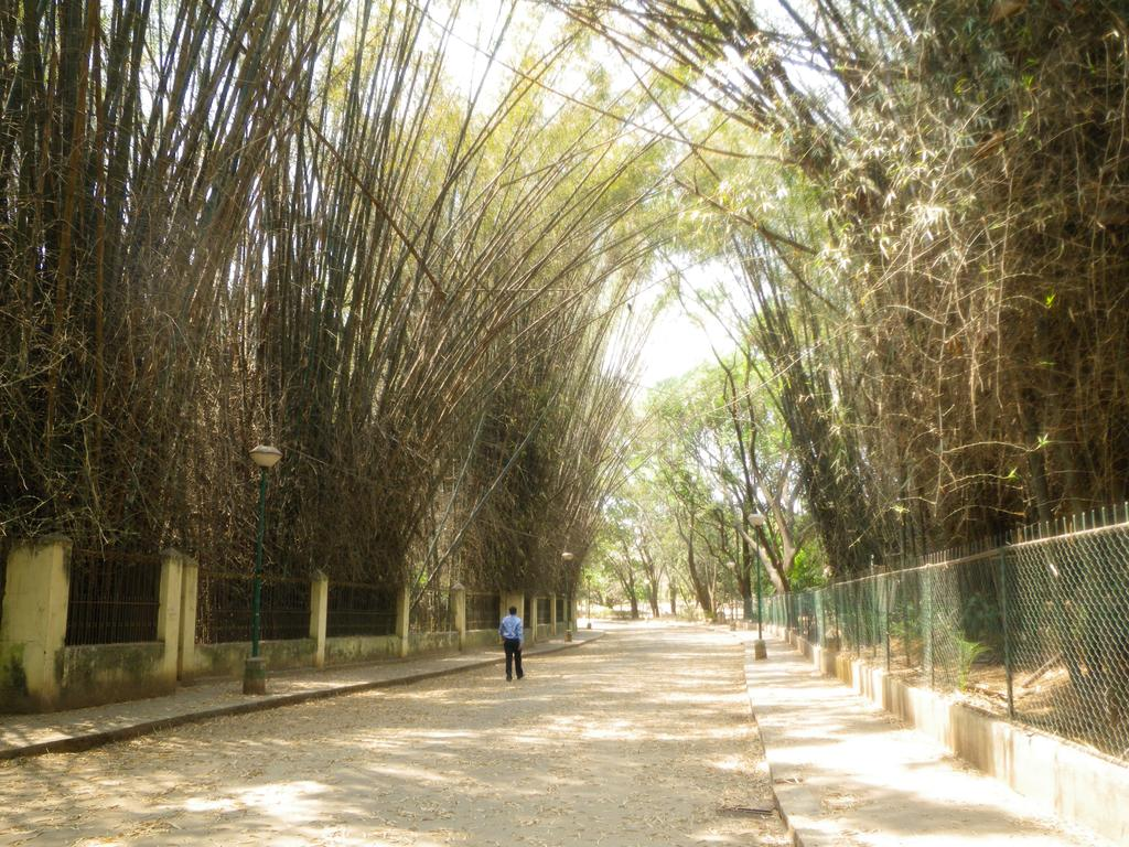 In the Cubbon Park